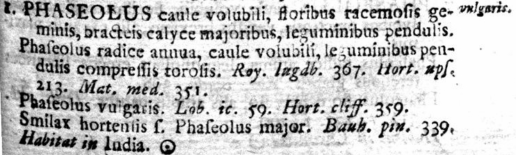 Descriptio of Phaseolus vulgaris